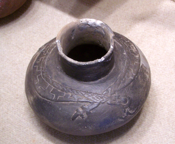 A pot from the Nodena Site, featuring a S.E.C.C. ogee motif made from Horned Serpents.